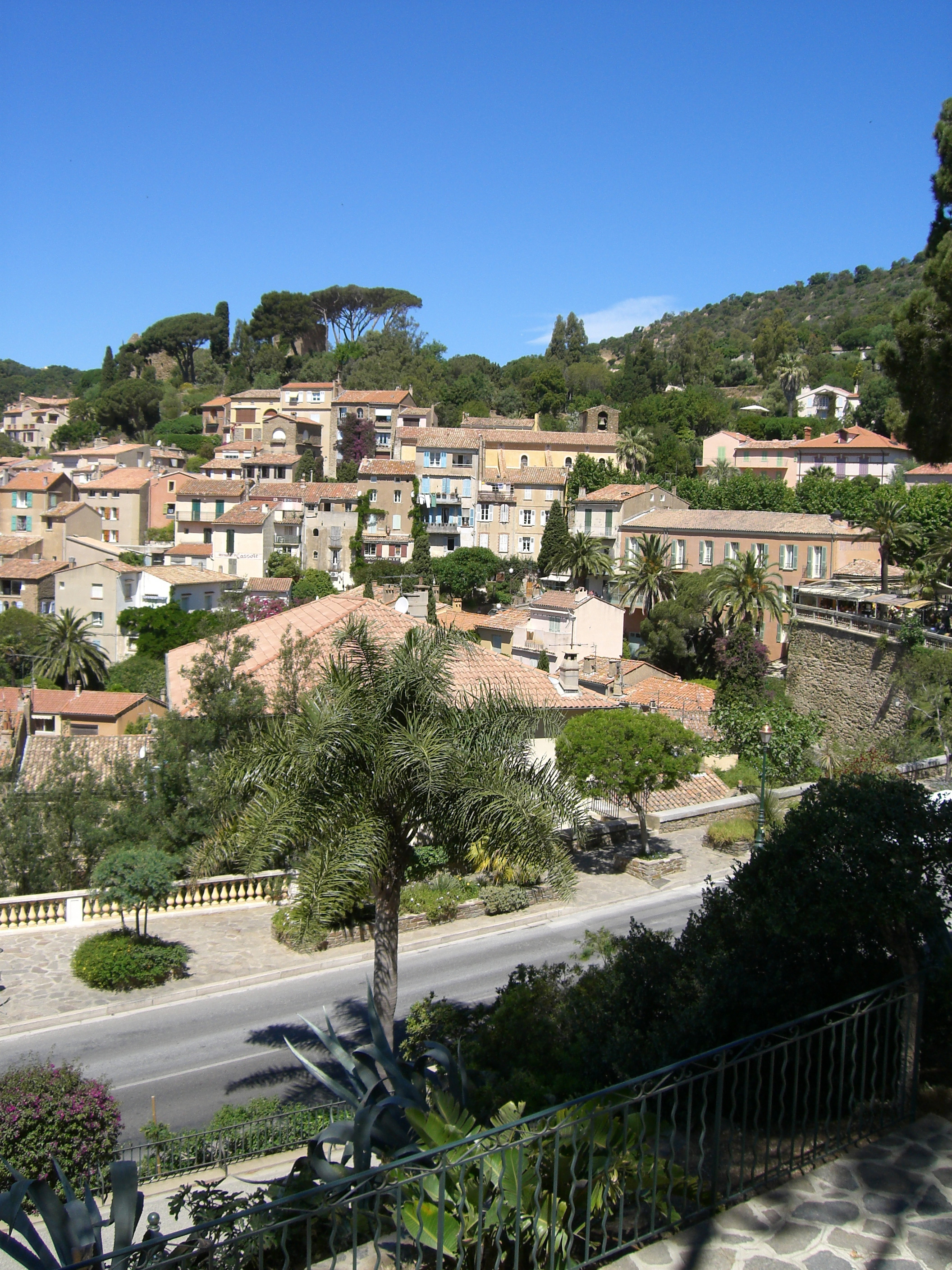 Bormes-les-Mimosas, France, the village